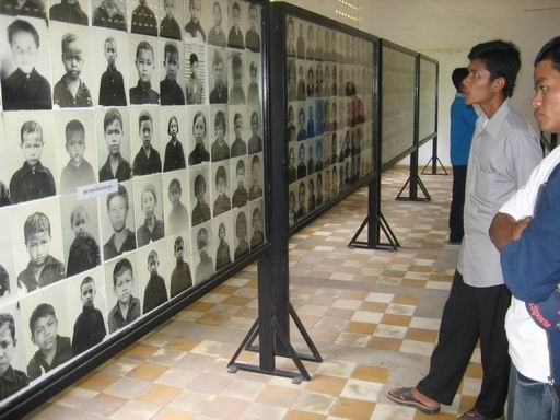 Own work taken in the Tuol Sleng Museum with permission from the Museum administration on March 13, 2006. Donated to the Wikipedia system and it can be considered wikipedian document. Albeiro Rodas, Cambodia, July 2006.